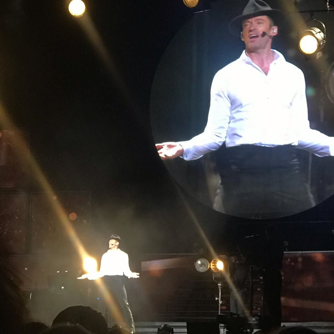 The European leg of "The Man. The Music. The Show." tour